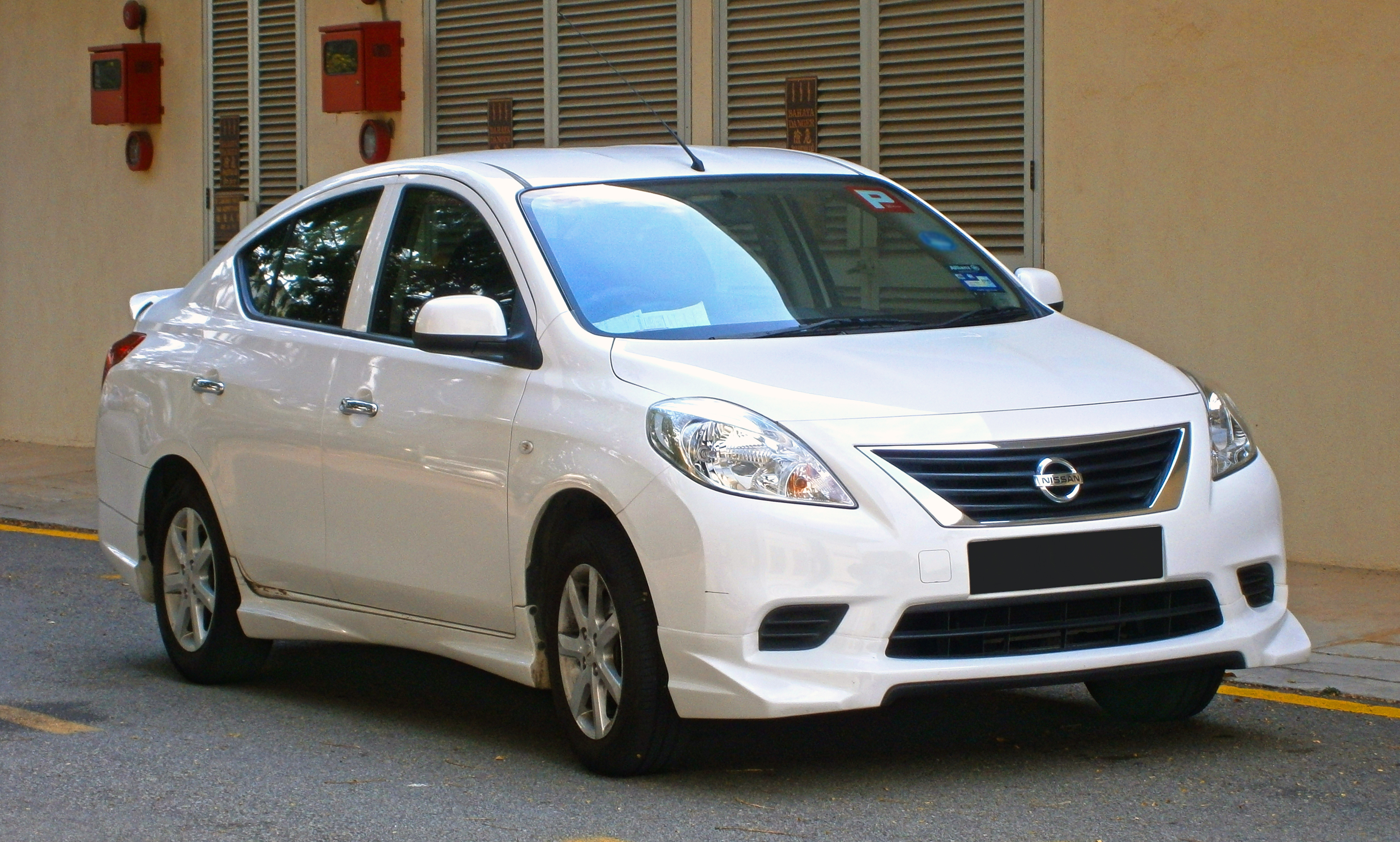 2013 Nissan Almera 1.5L V Sedan (with opt. Impul bodykit) in Cyberjaya, Malaysia.